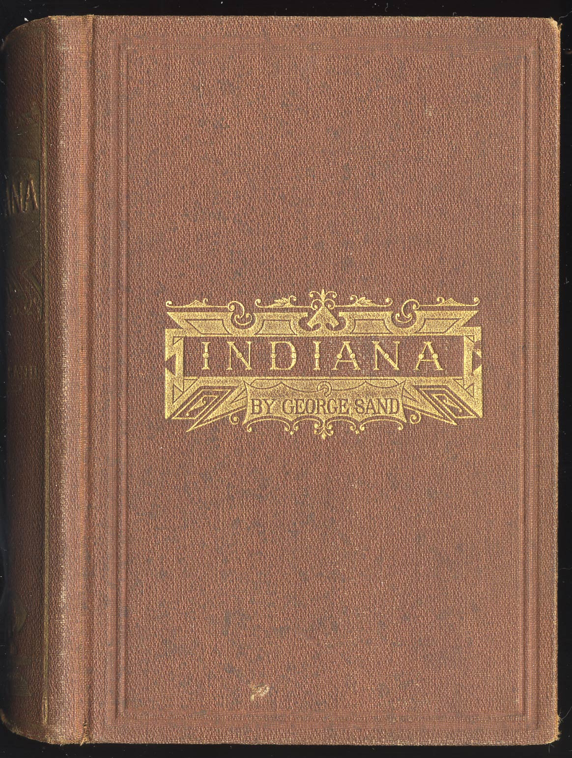 Cover of the 1870 English edition of George Sand's novel Indiana. Philadelphia: T.B. Peterson & Brothers. 1870. Translated by George W. Richards. Brown cloth, embossed cover. Gilt lettering and decoration.